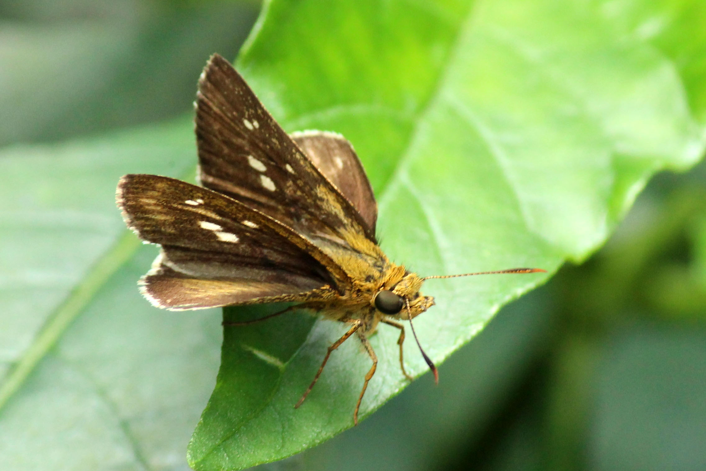 Halpe homolea hindu Evans, 1937 - Sahyadri Banded Ace